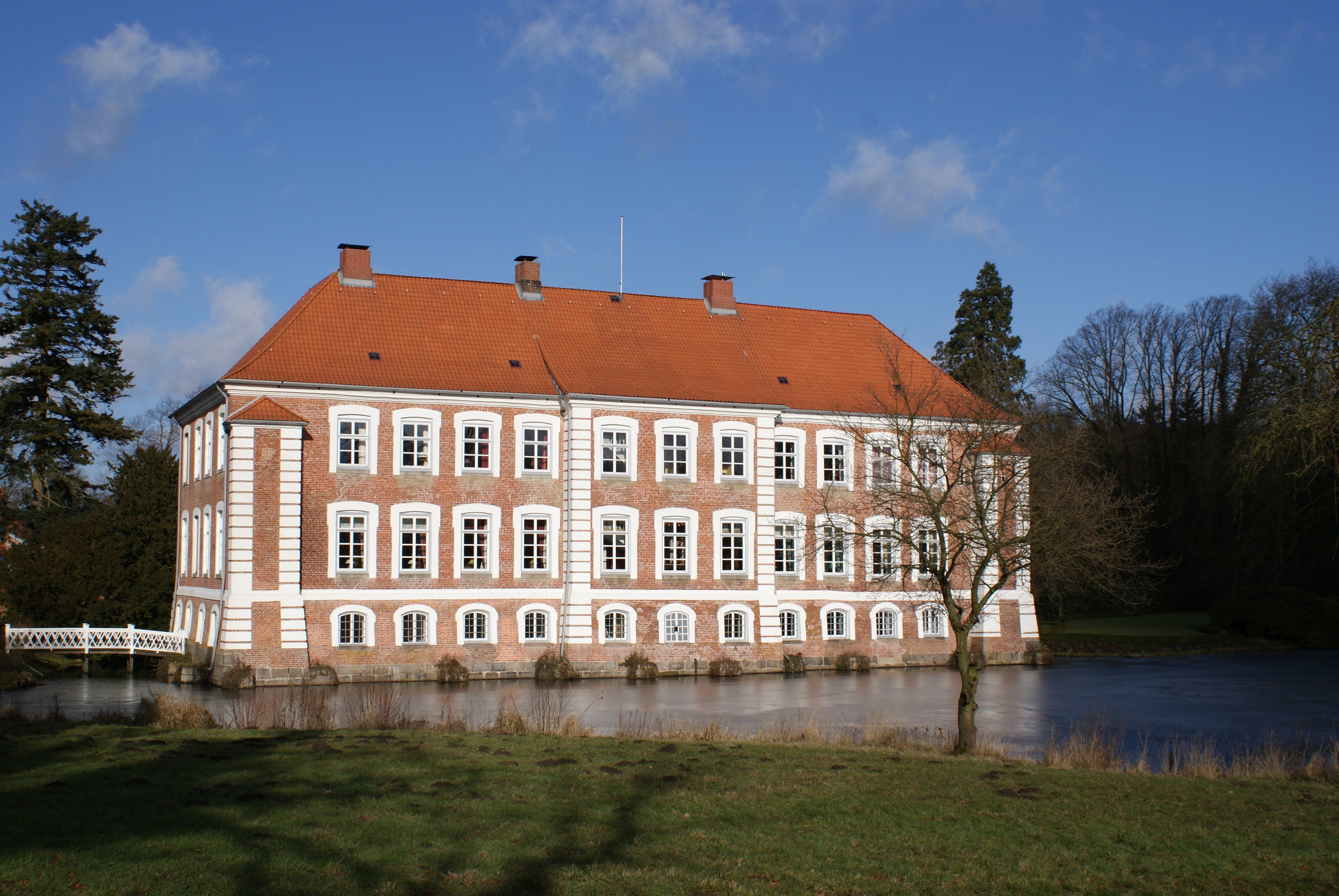 Gueldenstein Manor